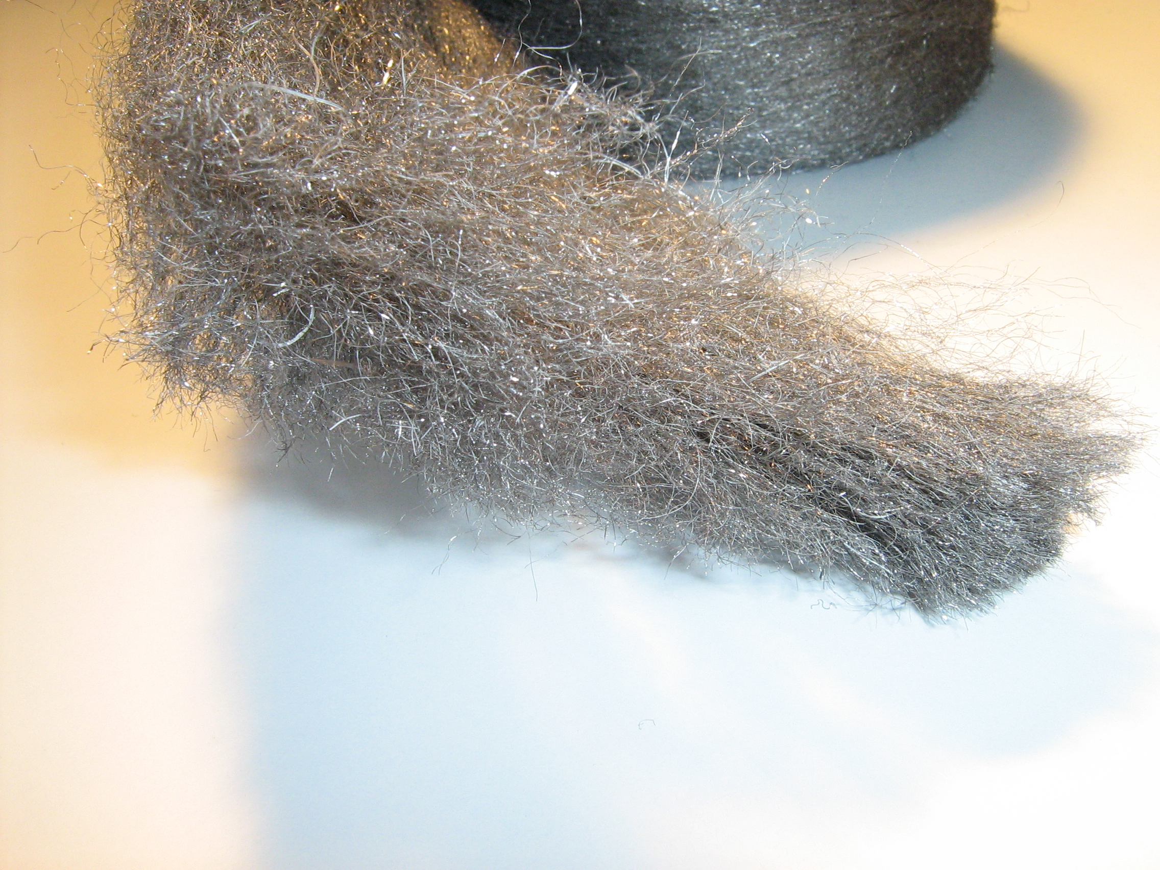 Steel wool, detail